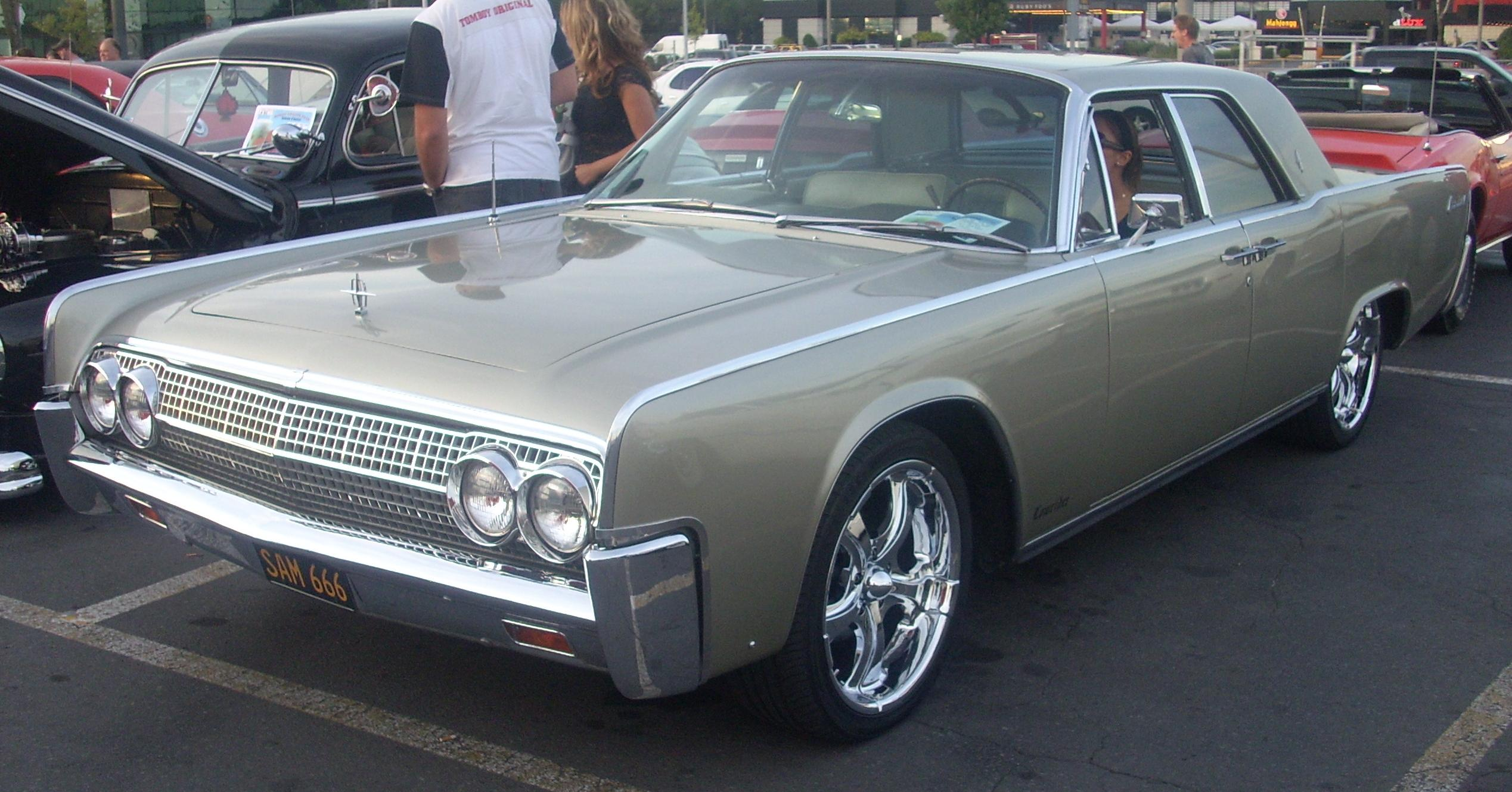 1963 Lincoln Continental photographed in Montreal, Quebec, Canada at Gibeau Orange Julep.